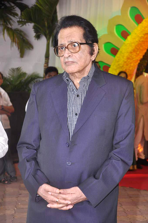 at Esha Deol's wedding at ISCKON temple